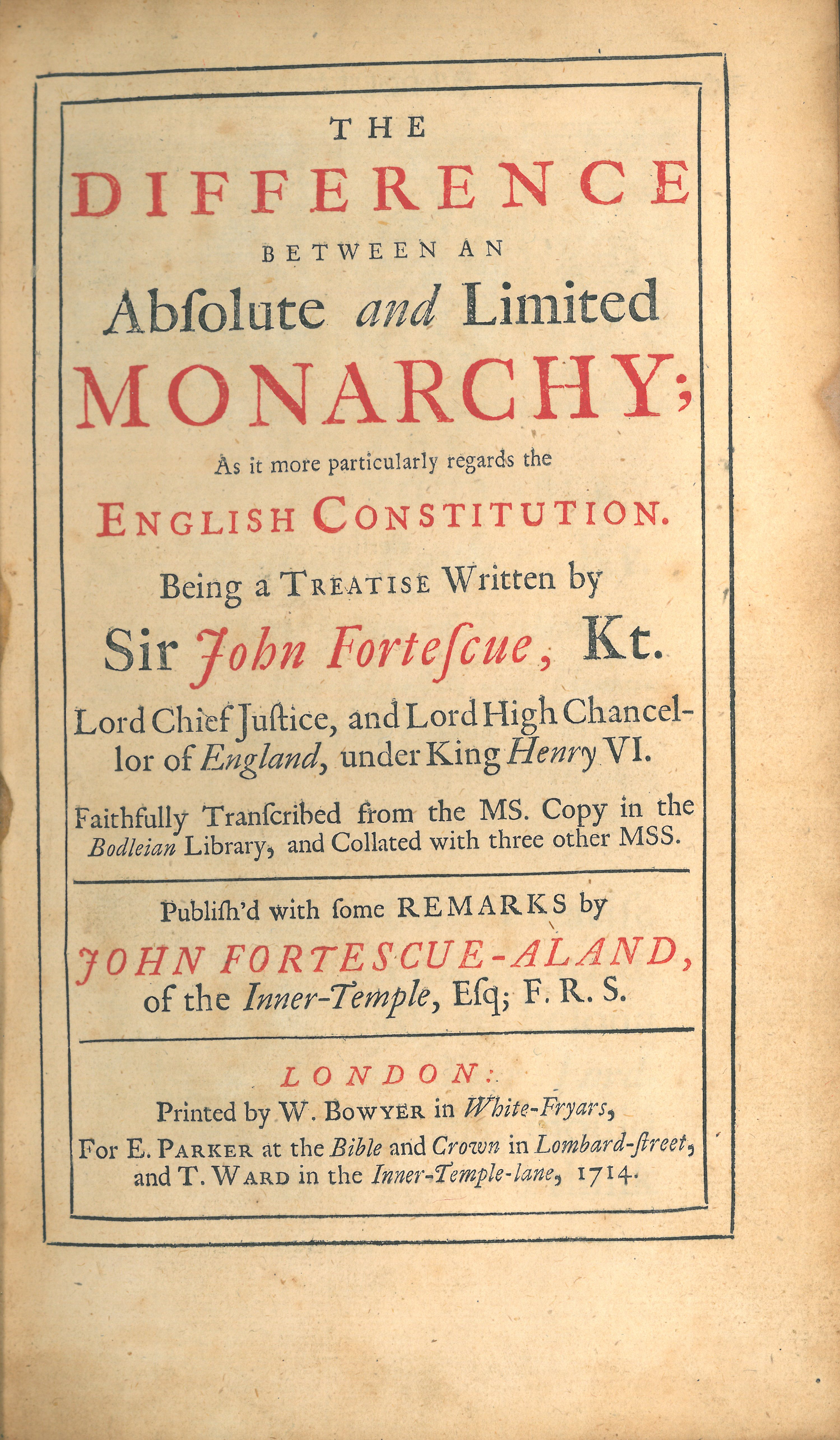 Title page of John Fortescue (1714) The Difference between an Absolute and Limited Monarchy: As it More Particularly Regards the English Constitution. Being a Treatise Written by Sir John Fortescue, Kt. Lord Chief Justice, and Lord High Chancellor of England, under King Henry VI. Faithfully Transcribed from the MS. Copy in the Bodleian Library, and Collated with Three Other MSS. Publish'd with some Remarks by John Fortescue-Aland, of the Inner-Temple, Esq; F.R.S. (1st ed.), London: John Fortescue Aland; printed by W[illiam] Bowyer in White-Fryars, for E. Parker at the Bible and Crown in Lombard-Street, and T. Ward in the Inner-Temple-Lane OCLC: 642421515.